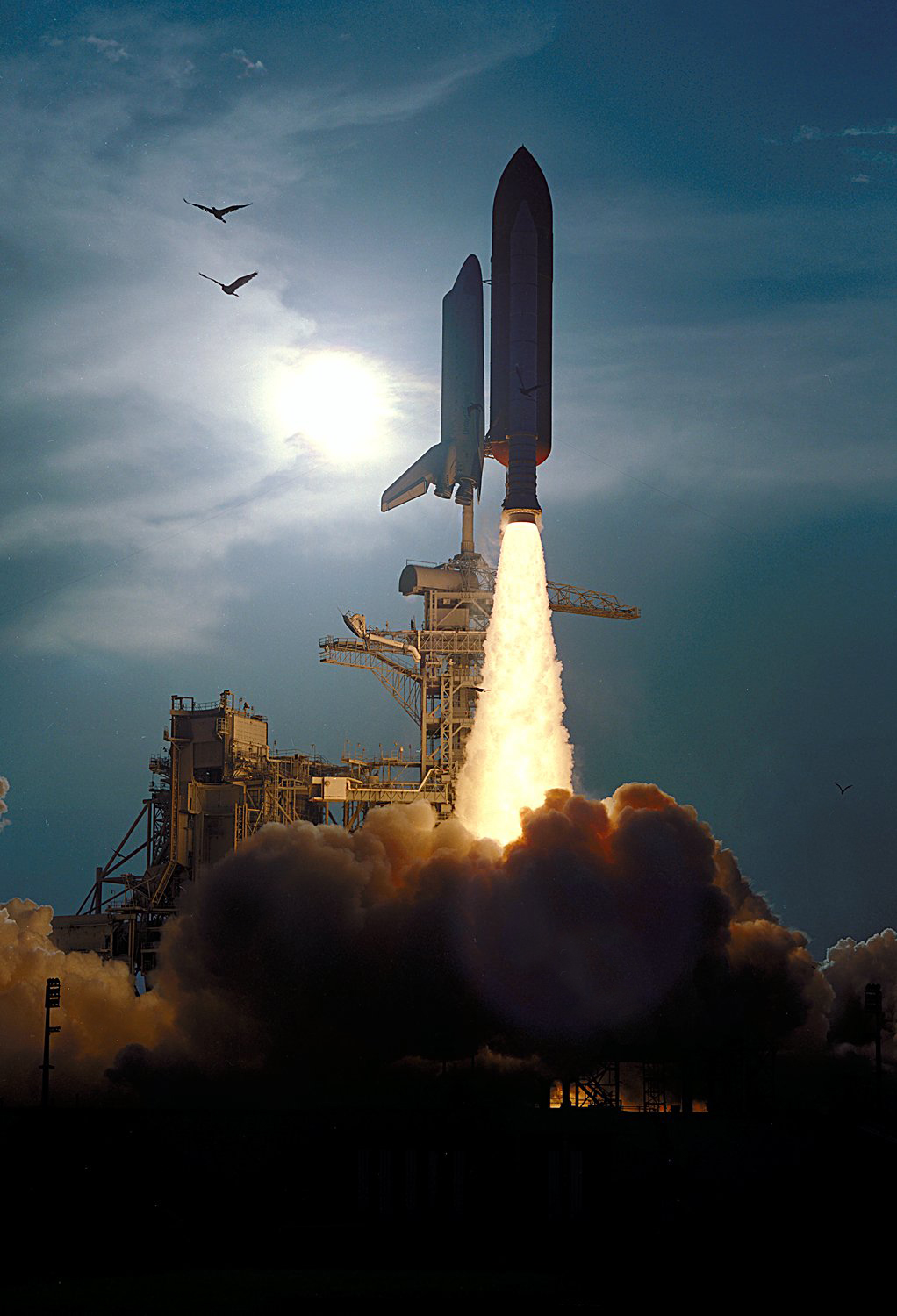 Launch of STS-64 mission.